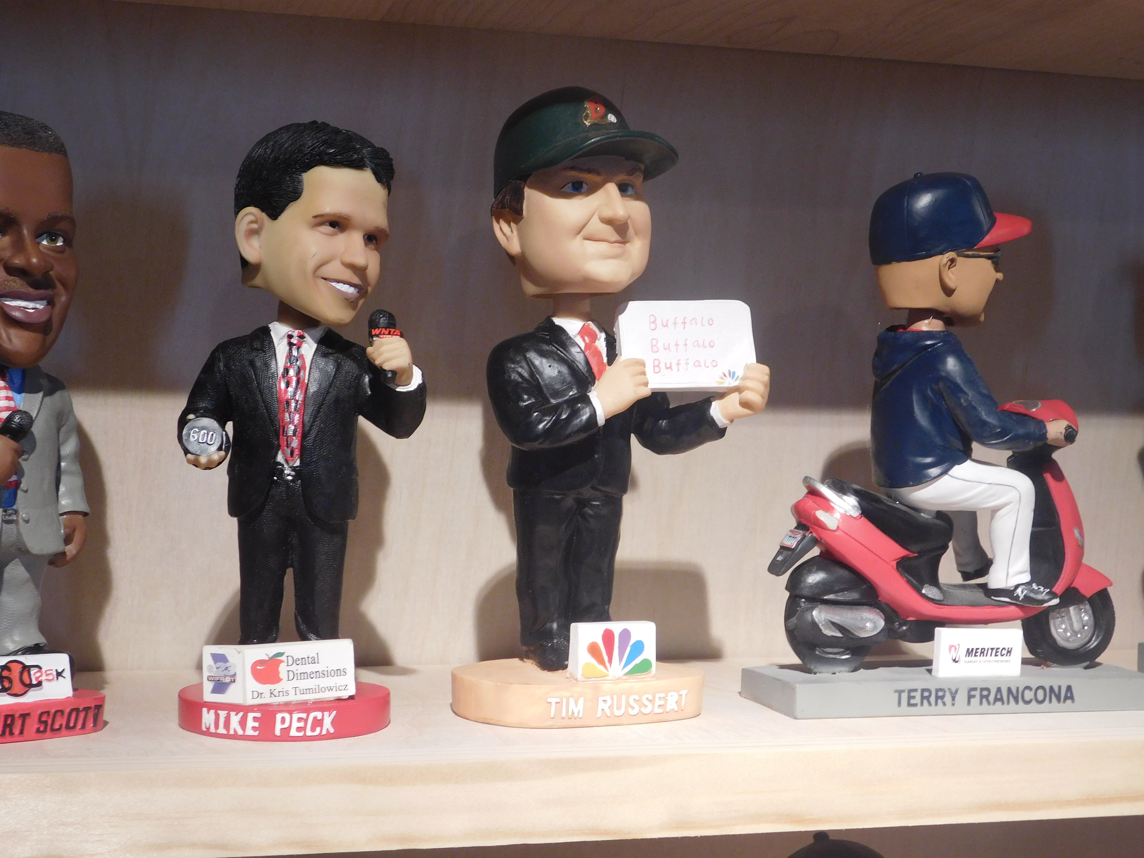 Milwaukee, Wisconsin